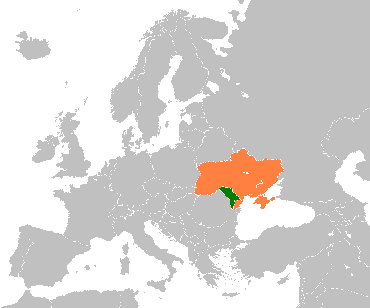 Moldova Ukraine Locator